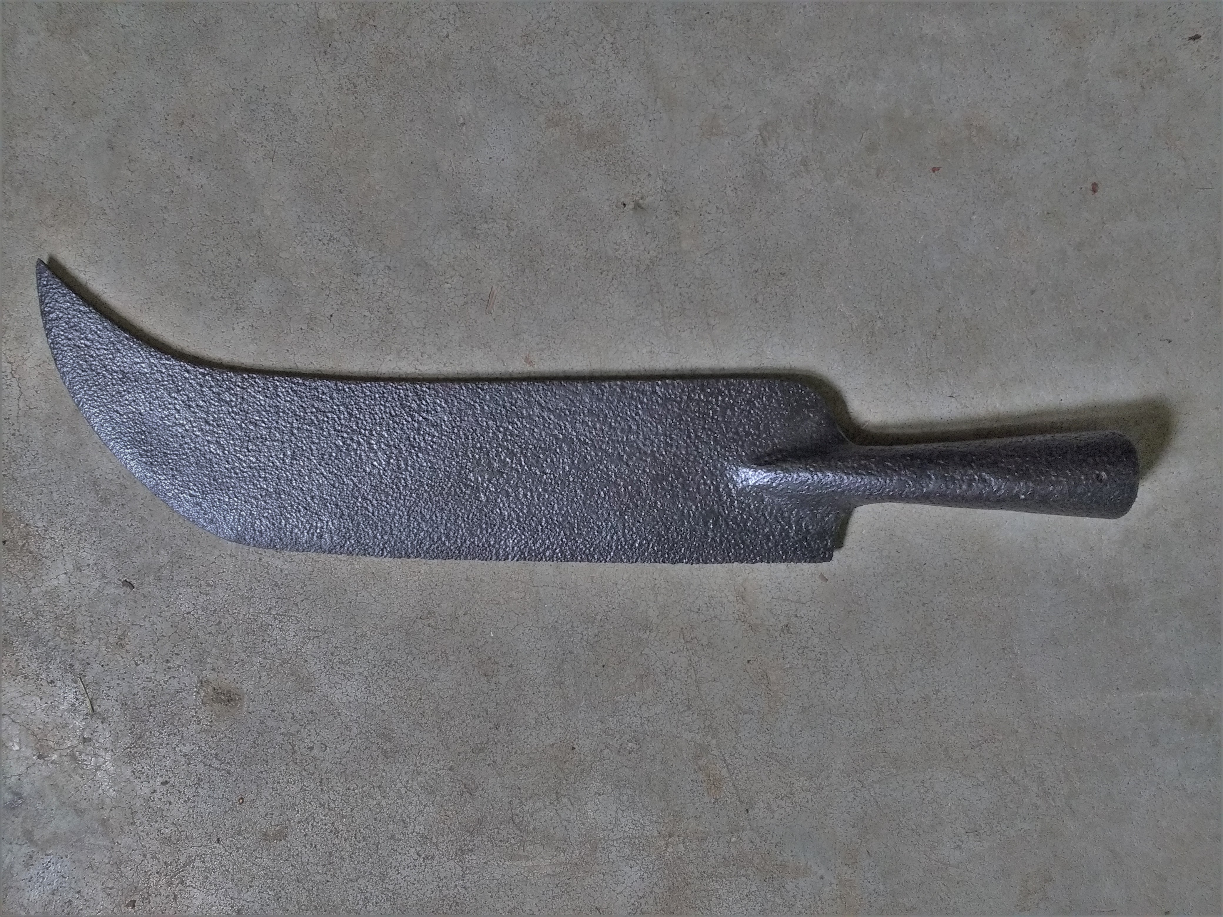 Early French Fauchard from private collection